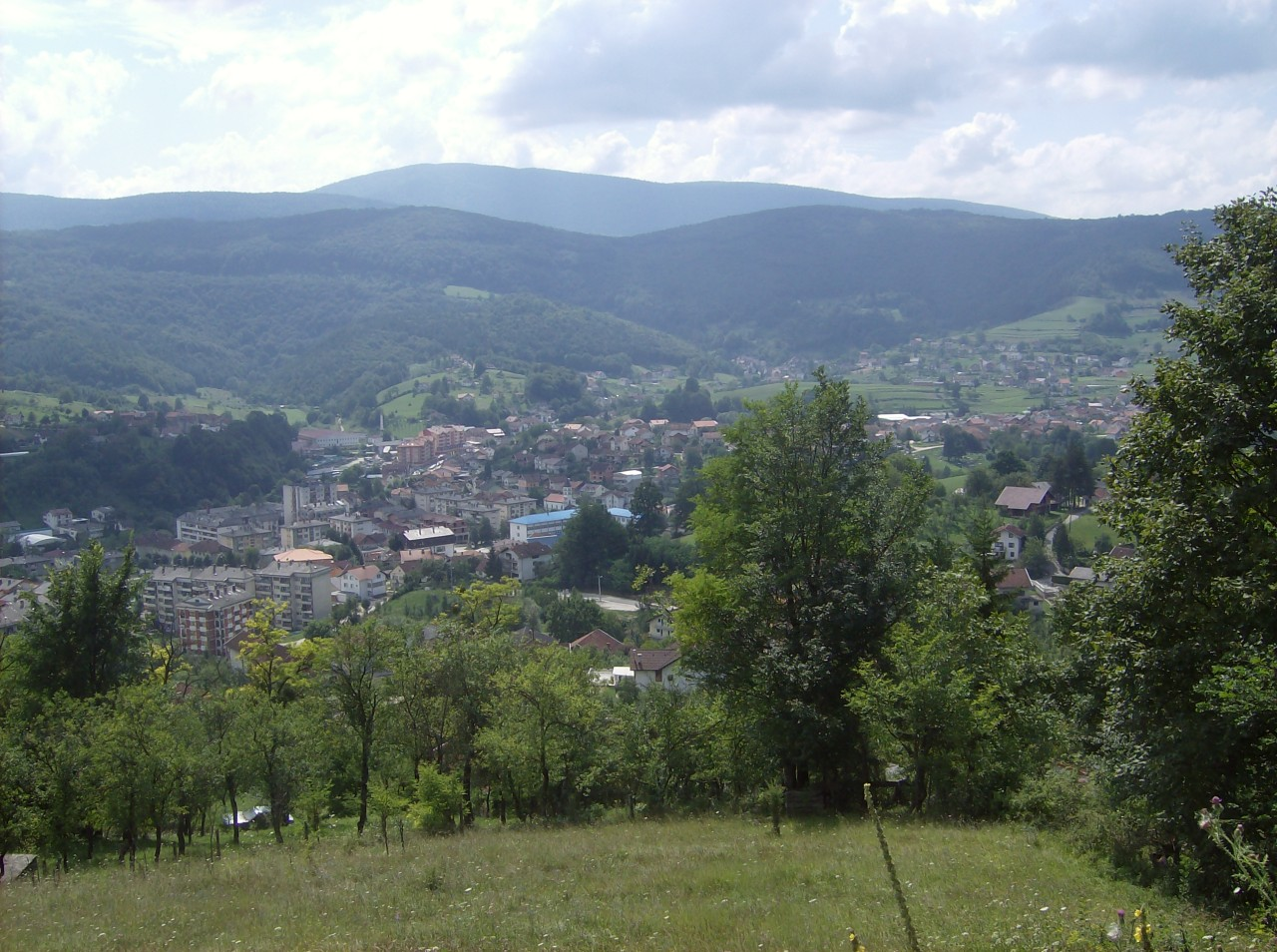 Panoramic view